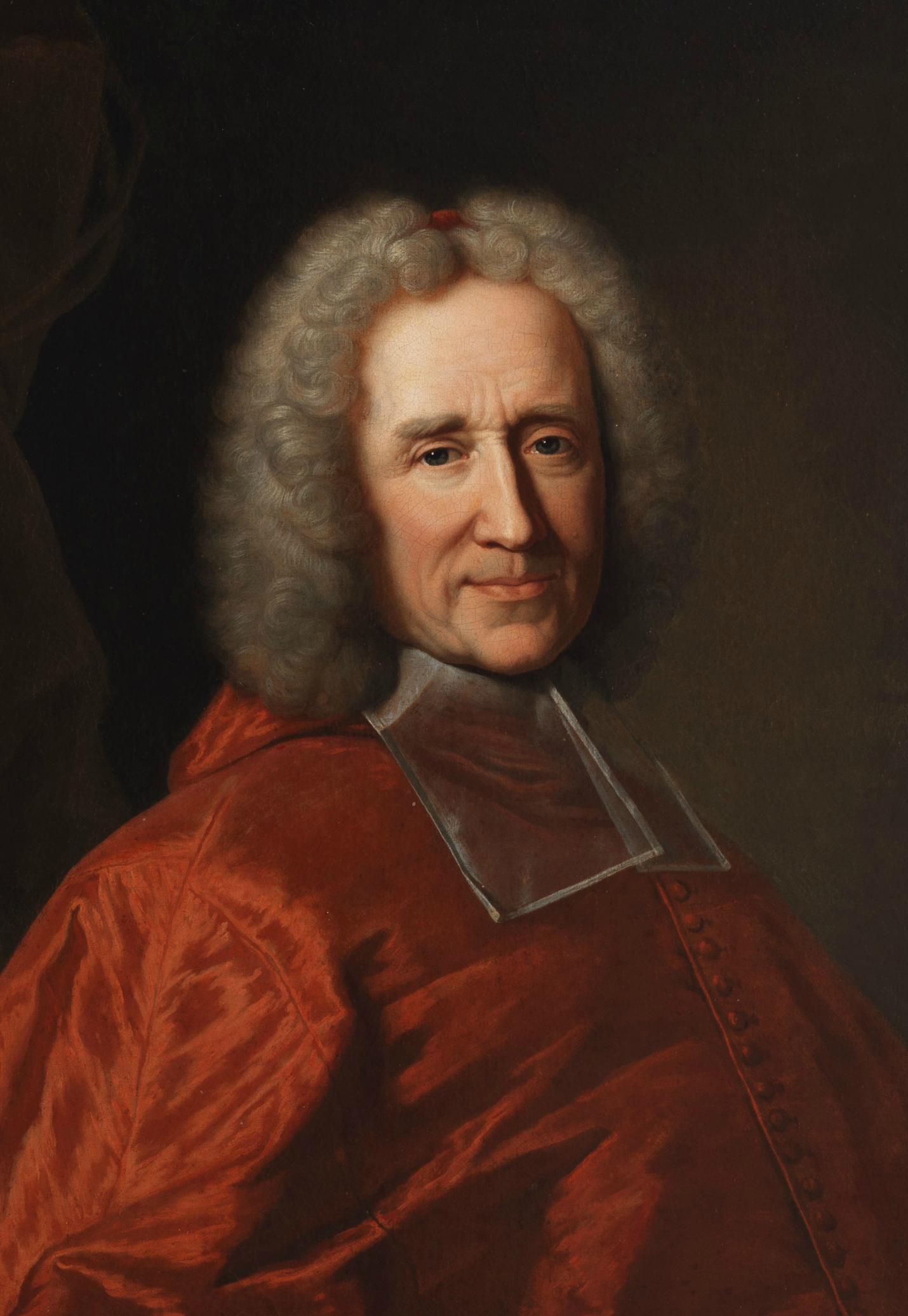 Portrait of cardinal Guillaume Dubois (1656-1723), archbishop of Cambrai, detail.